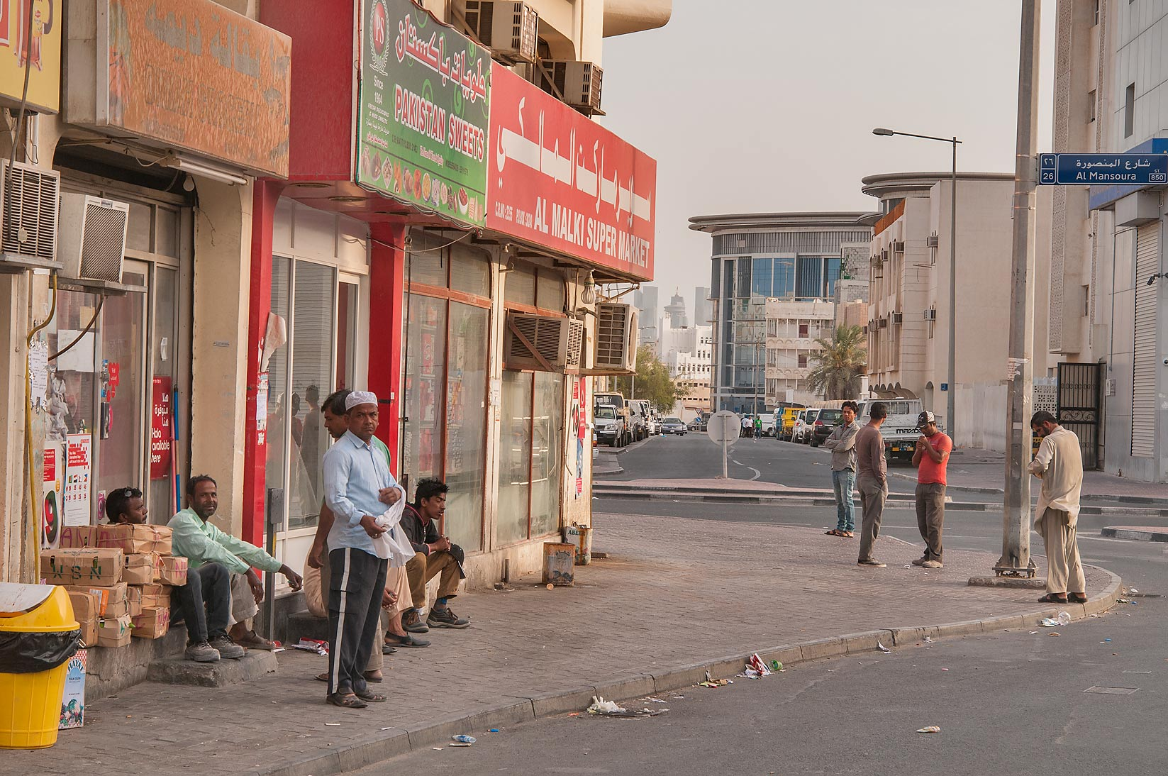 Migrant workers and shops on Al Mansoura Street in the Najma district of Doha, Qatar.